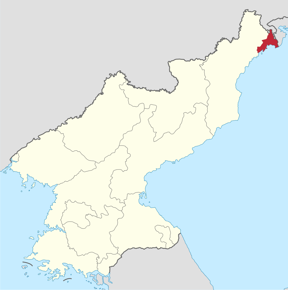 Location of Rason Special Economic Zone